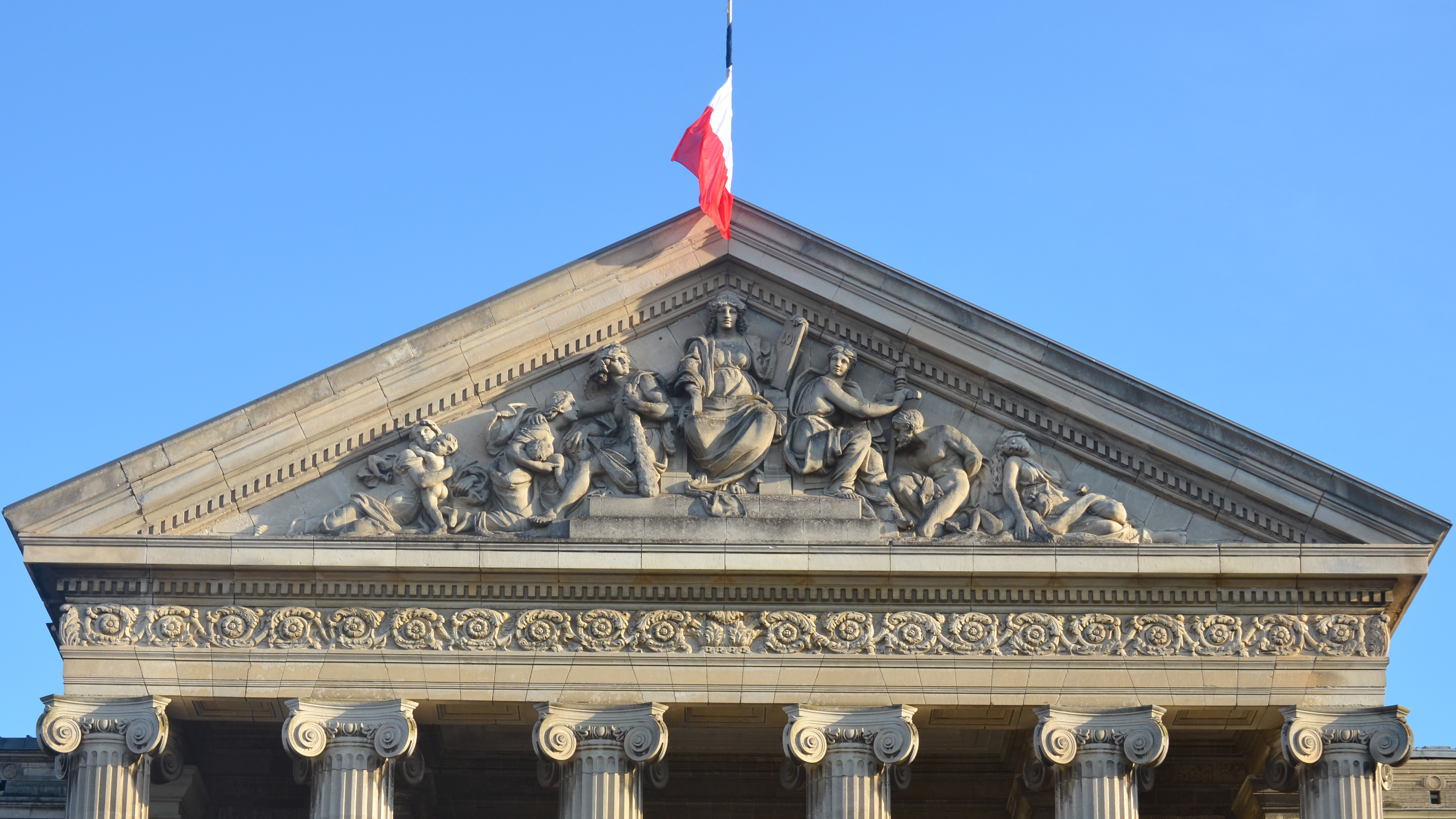 Courthouse - Angers (Maine-et-Loire, France)